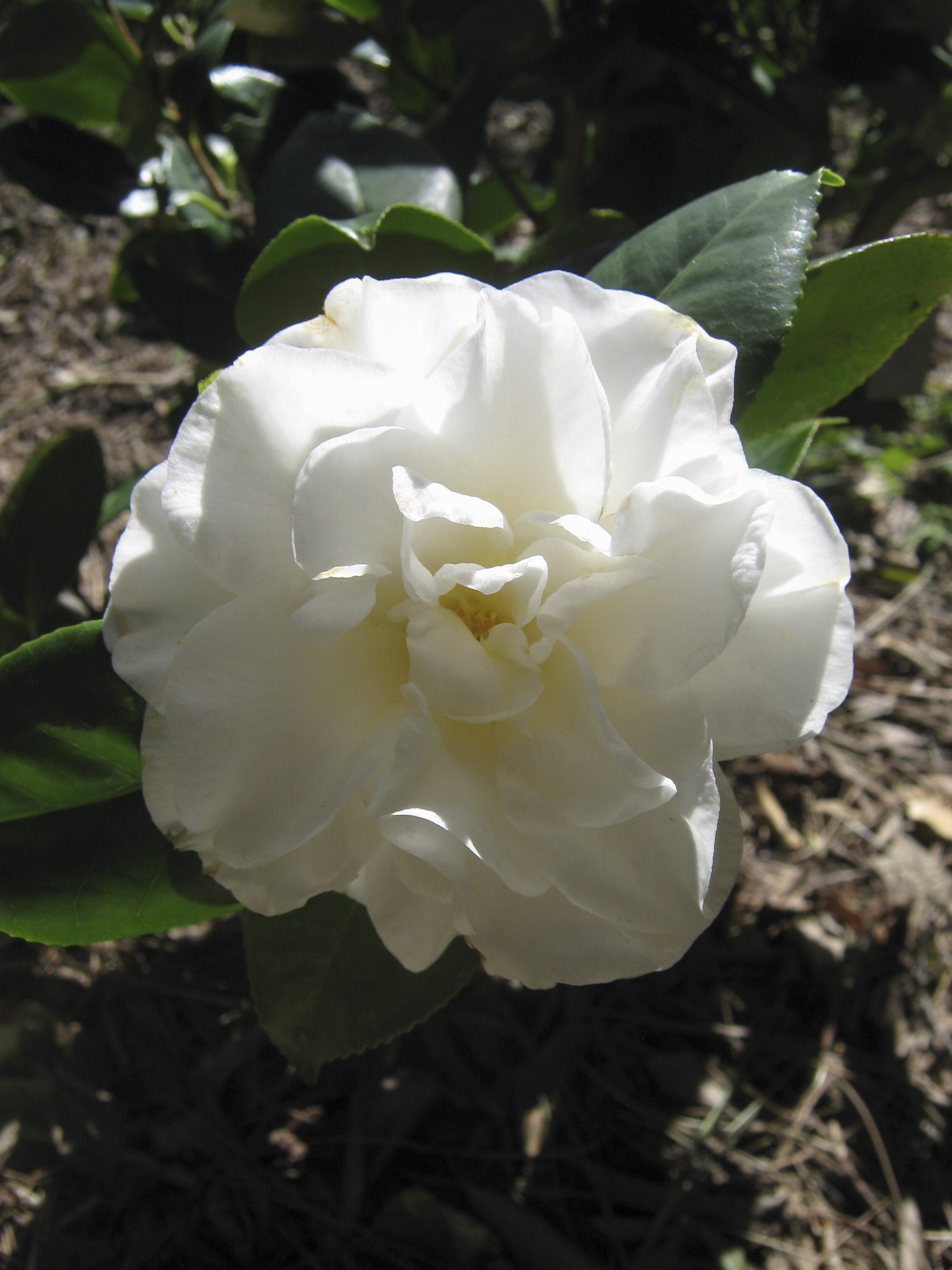 Camellia japonica 'Polar Bear' by E.G. Waterhouse 1957; photographed in the Royal Botanic Gardens, Melbourne